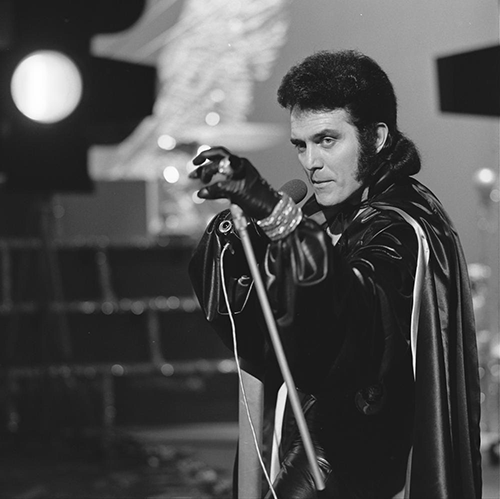 Alvin Stardust in AVRO's TopPop (Dutch television show) in 1974